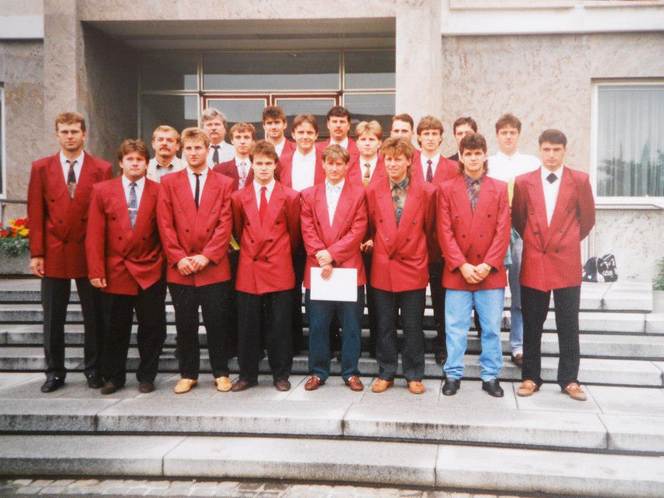 Players and leaders had very elegant uniform confection. They traveled in this set into 1990's.